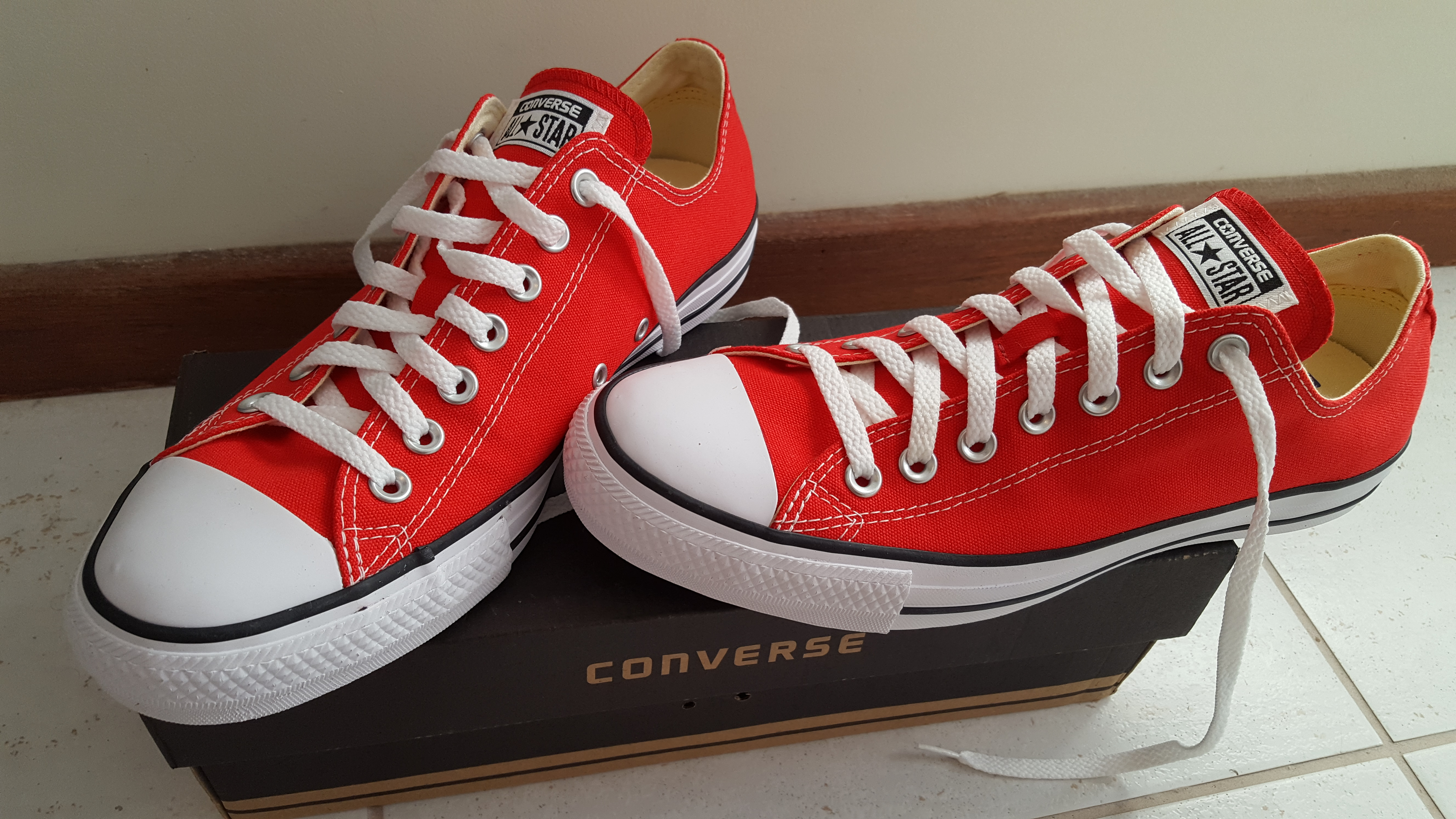 A pair of Converse All Star sneakers, low top, red, over the original box.